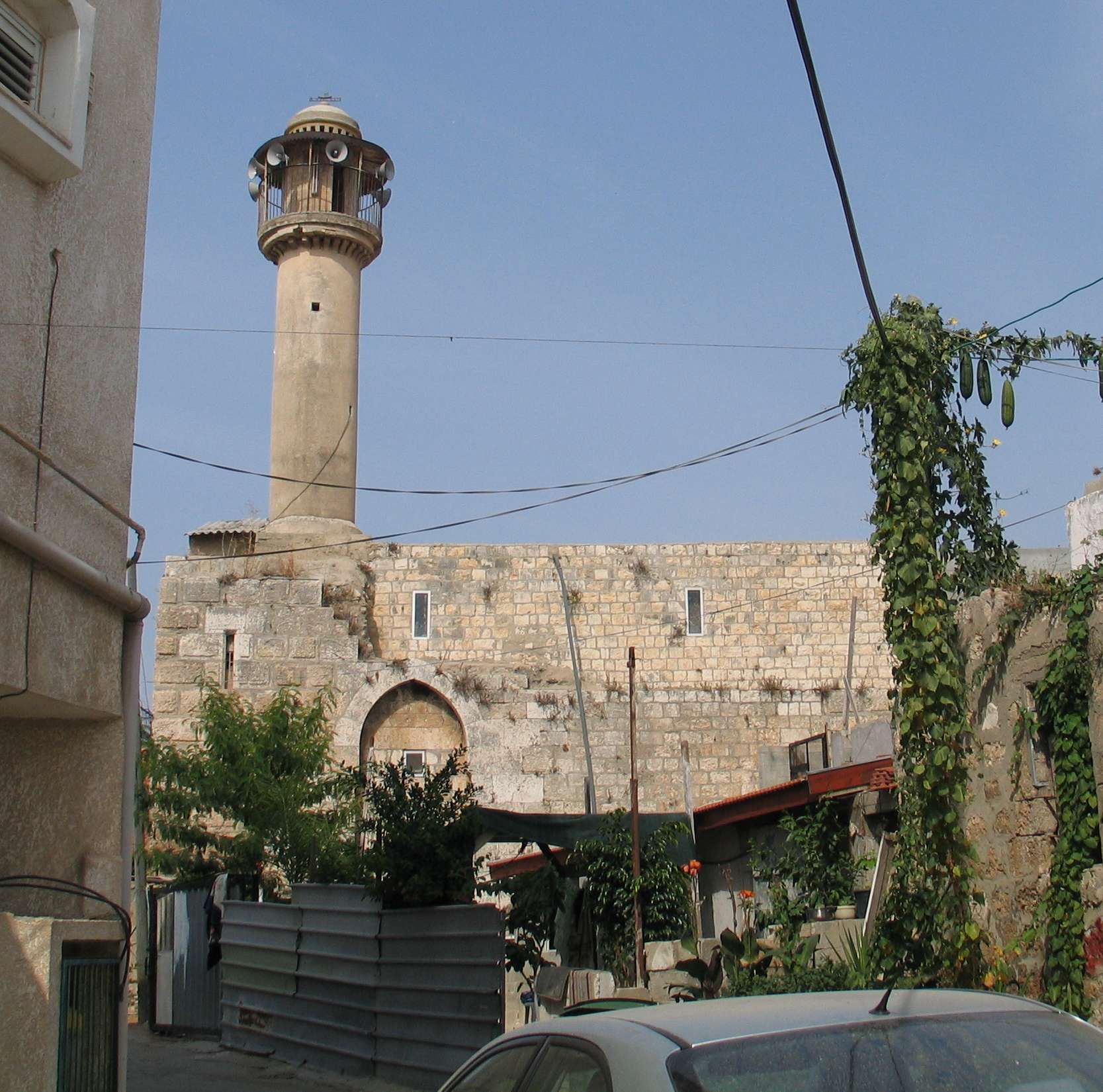 Qalansuwa, Israel. A mosque built upon ruins of a crusader hall.